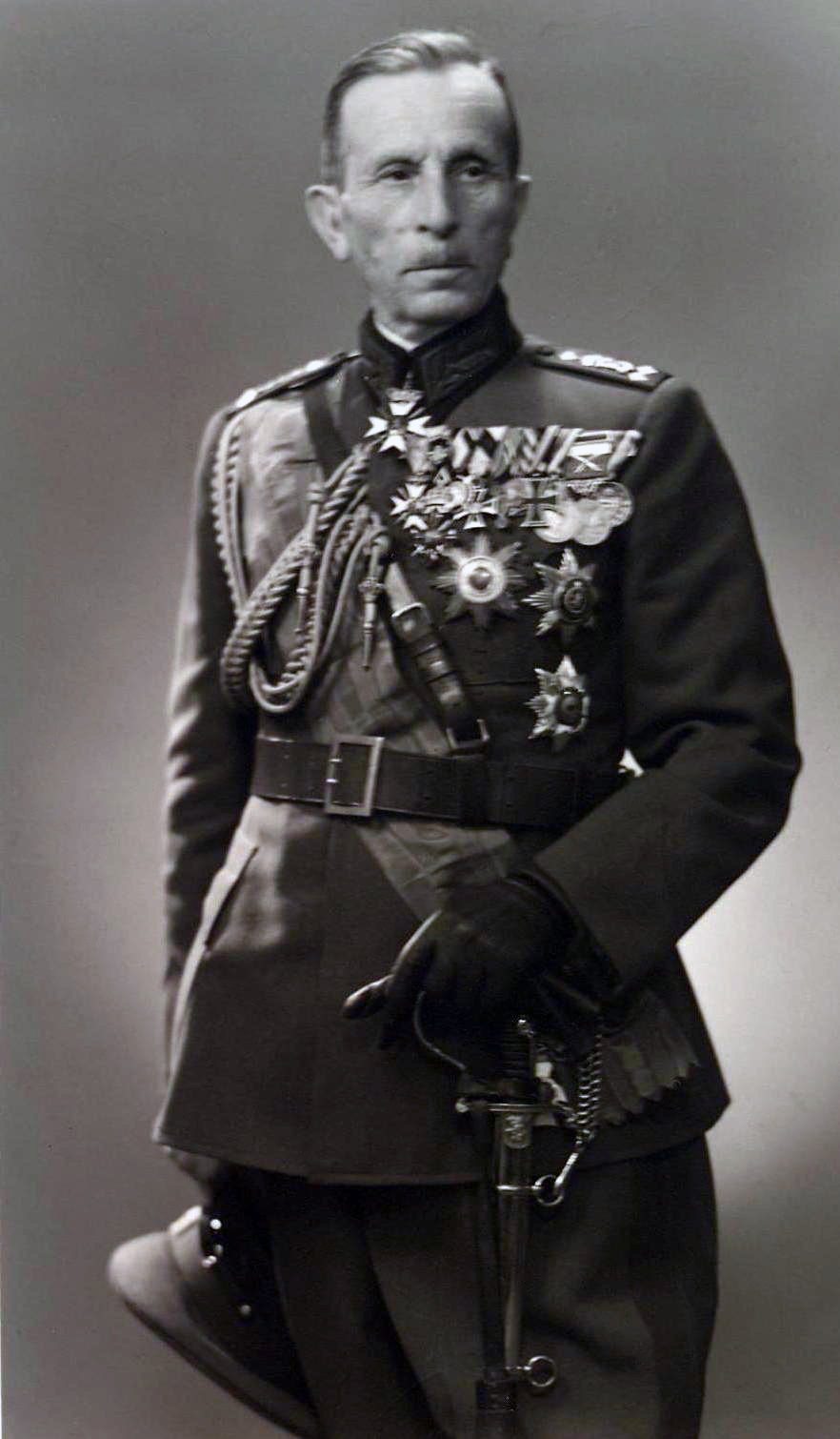 Nikola Zhekov.